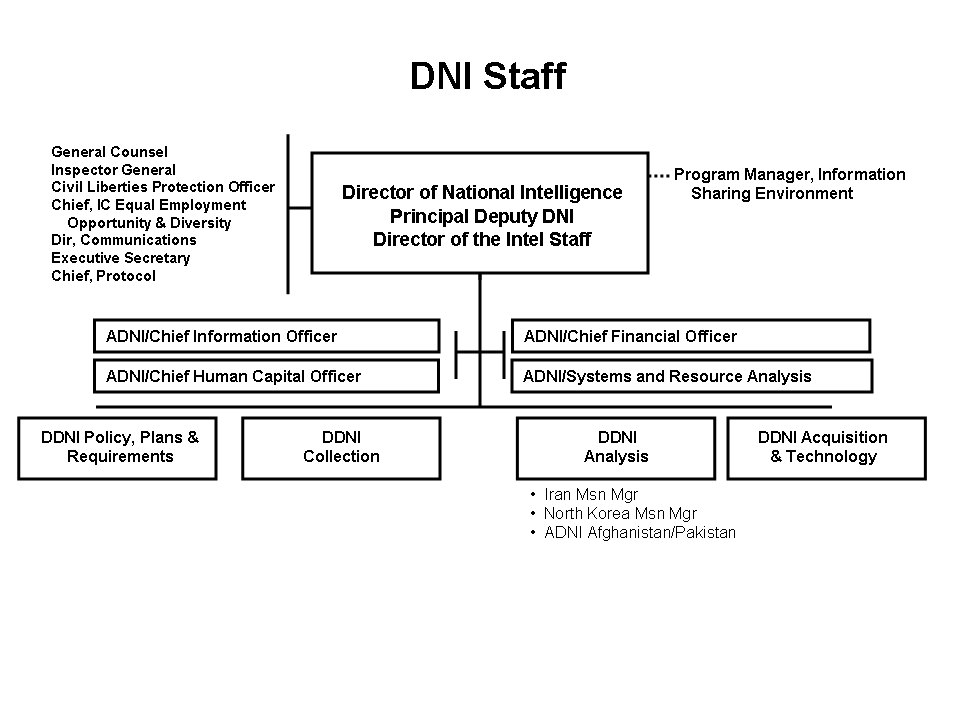 Organization of the United States Director of National Intelligence office.